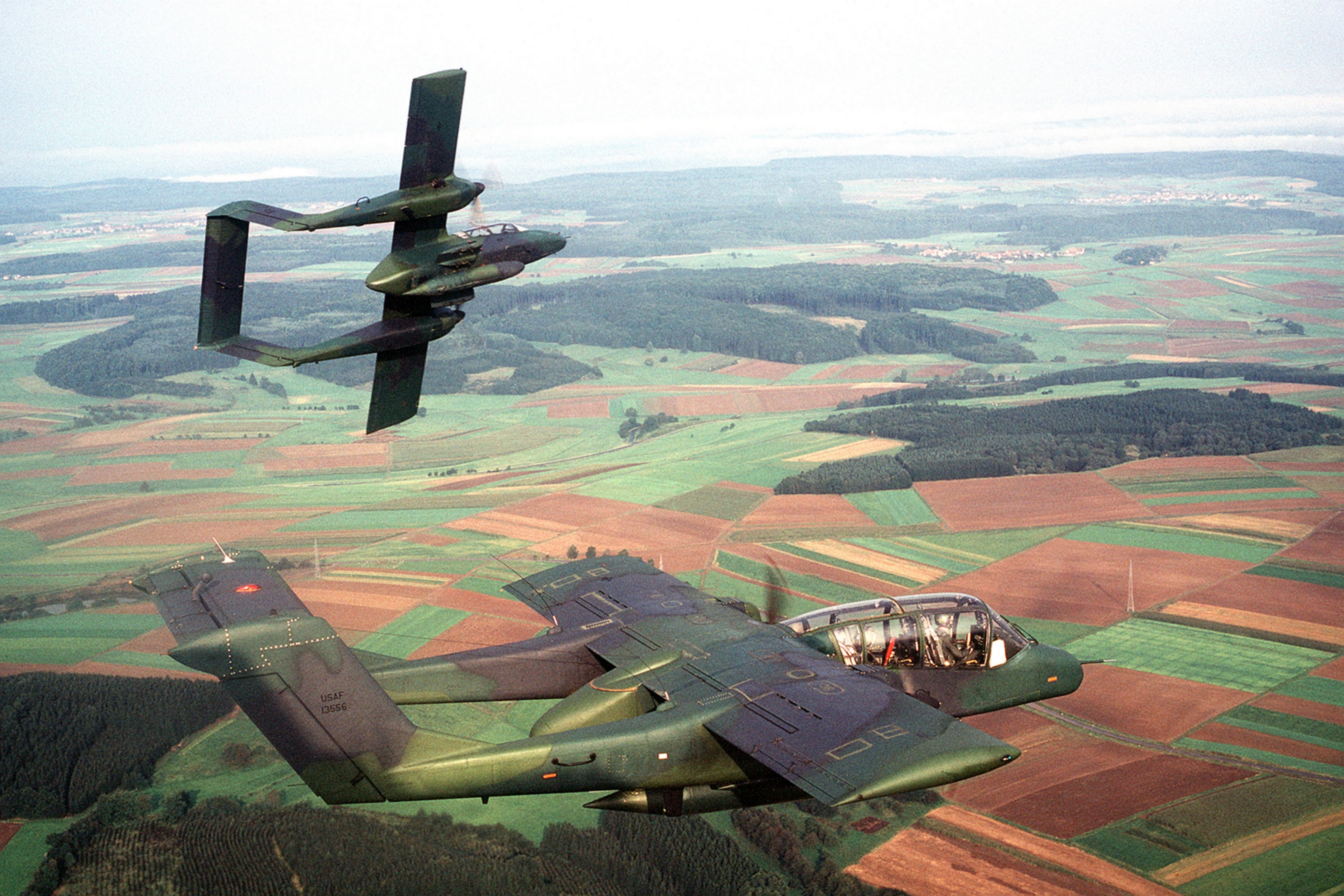 Two U.S. Air Force Rockwell OV-10A Bronco aircraft from the 601st Tactical Air Support Wing, based at Sembach Air Base, Germany, in flight during exercise "Reforger '82" on 1 October 1982.